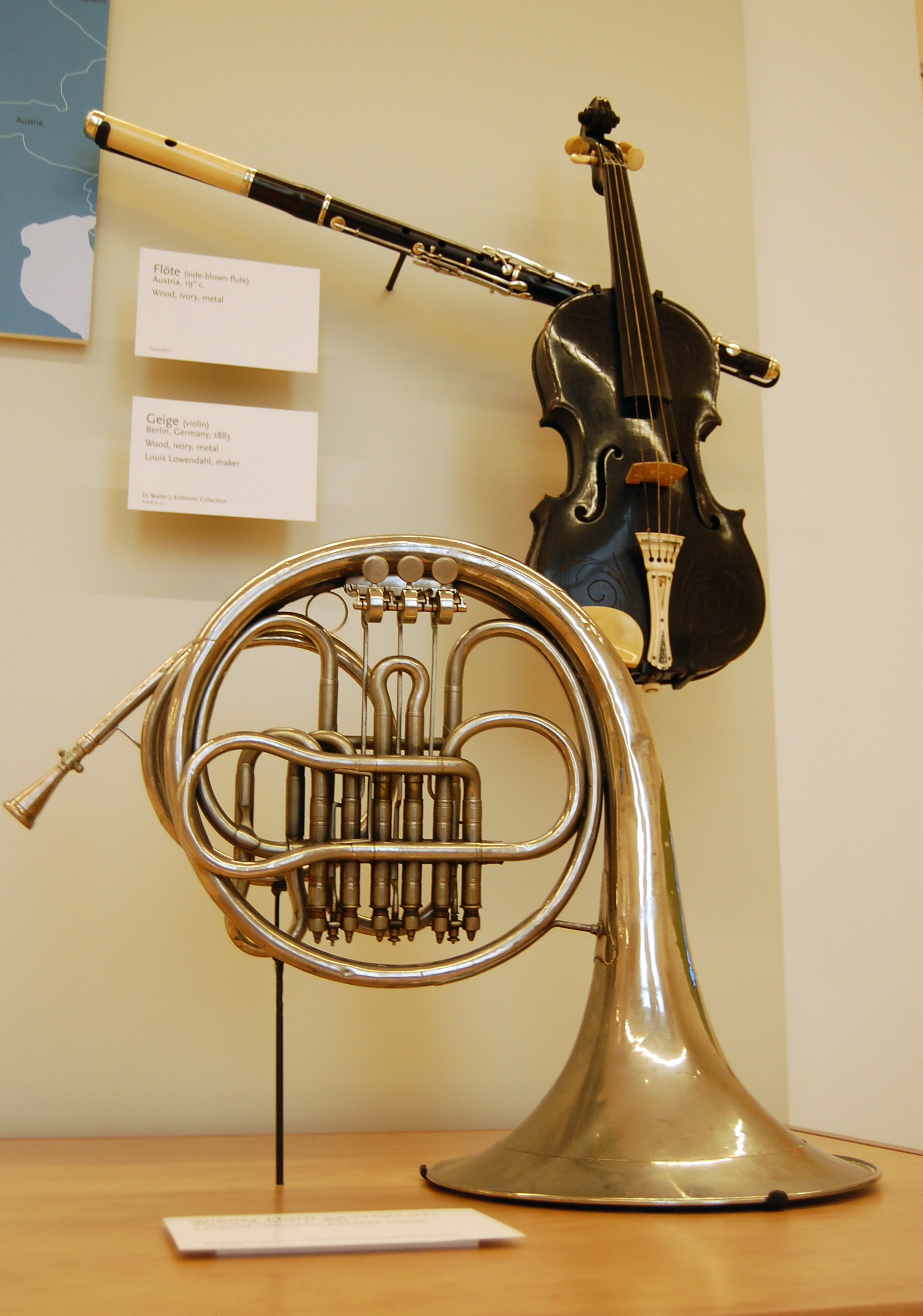 Flöte (19c, Austria), Geige (1883) by Louis Lowendahl, French Horn, MIM PHX